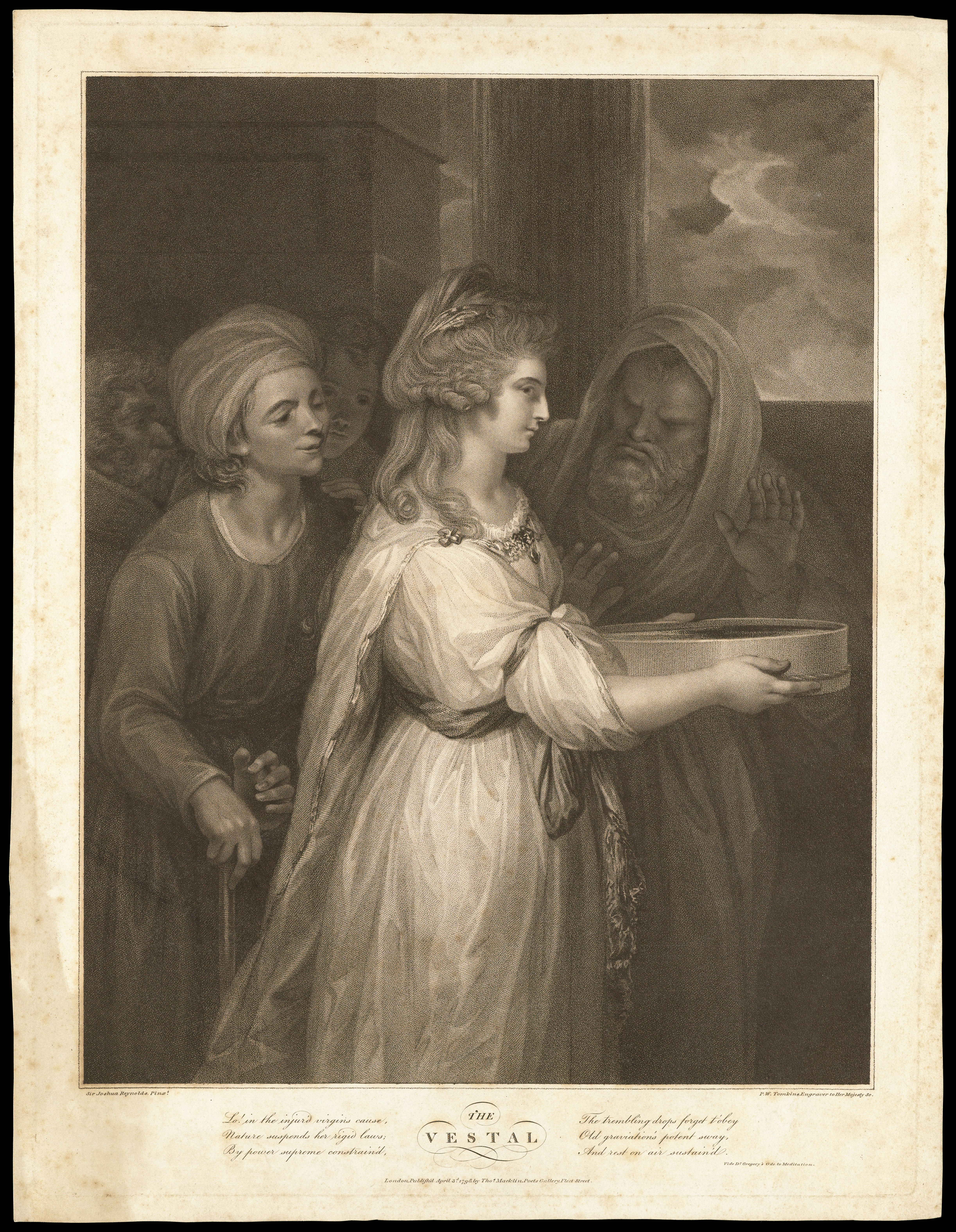 The Vestal Virgin Tuccia carrying water in a sieve; according to the Wellcome Collection catalogue entry for the print, the press at the time identified the figure of Tuccia as modelled on Rebecca Lyne (aka Mrs Seaforth), mistress of Richard Barwell and mother of four of his illegitimate children Iconographic Collections Keywords: Peltro William Tomkins; Joshua Reynolds